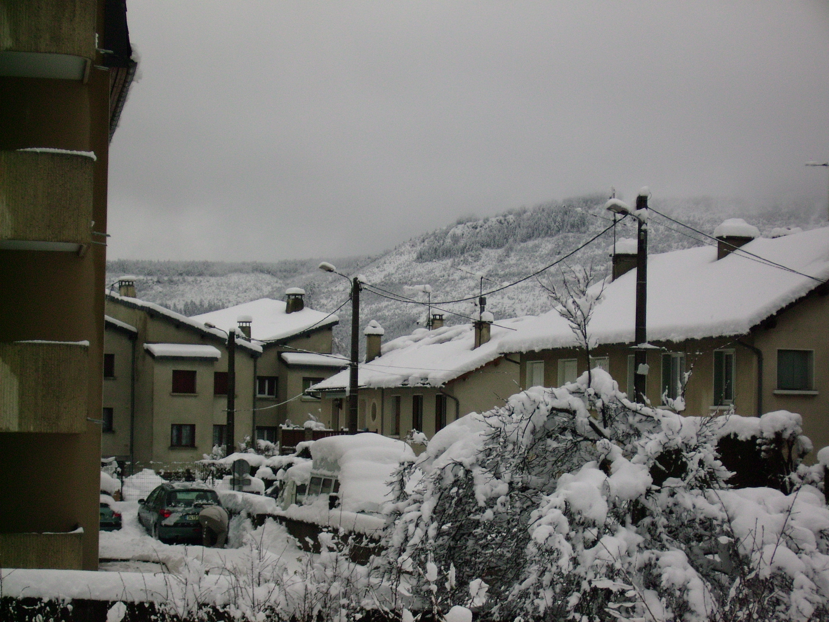 Mende (French city) in winter (December 08)